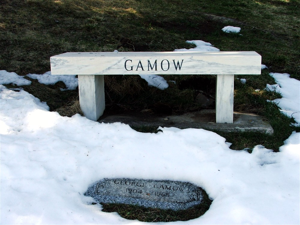 Grave of George Gamow in Green Mountain Cemetery, Boulder, Colorado, USA. Personal photograph. No rights claimed.